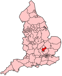 Map showing location of Central Bedfordshire Unitary Authority (effective 1st April 2009) in England.